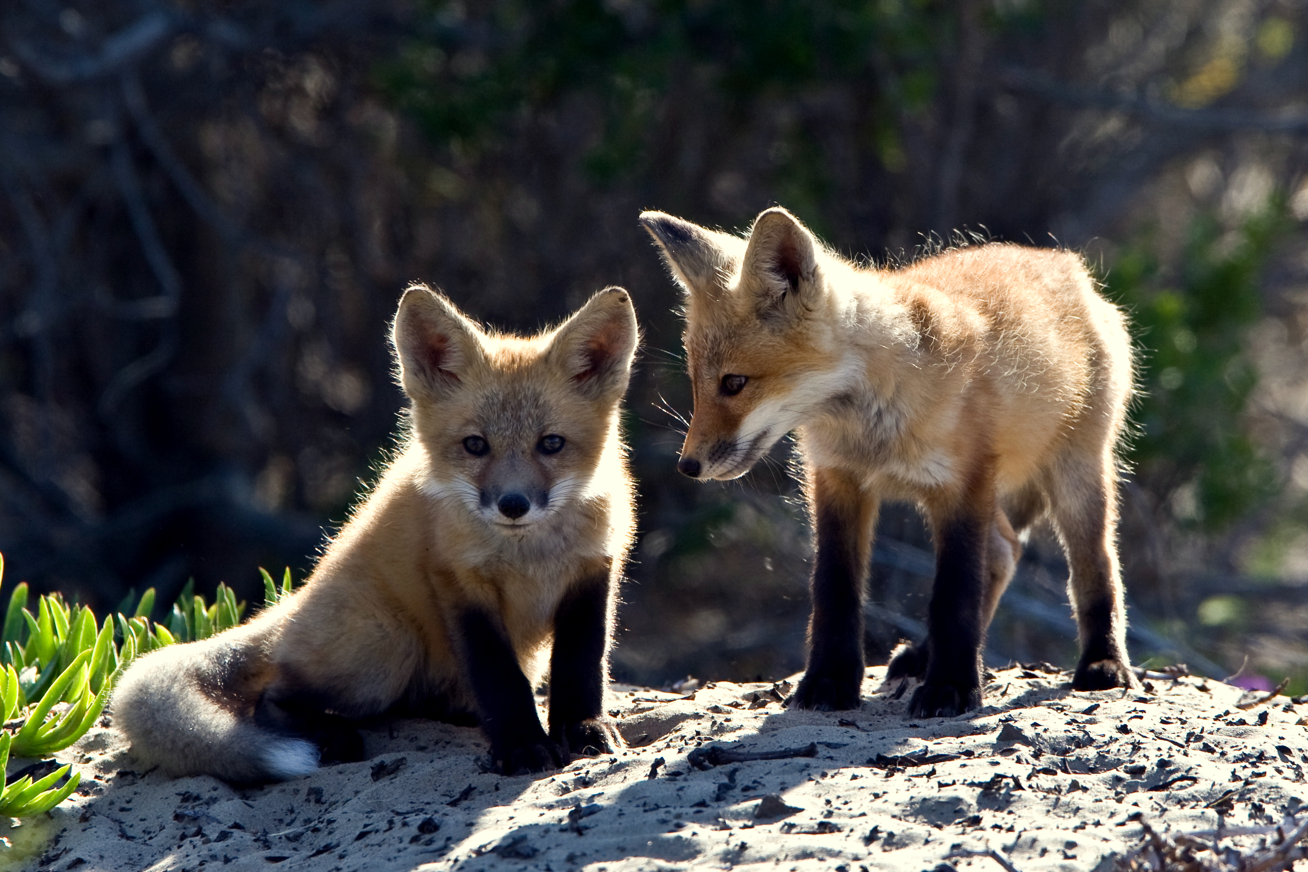 Red Fox cubs.